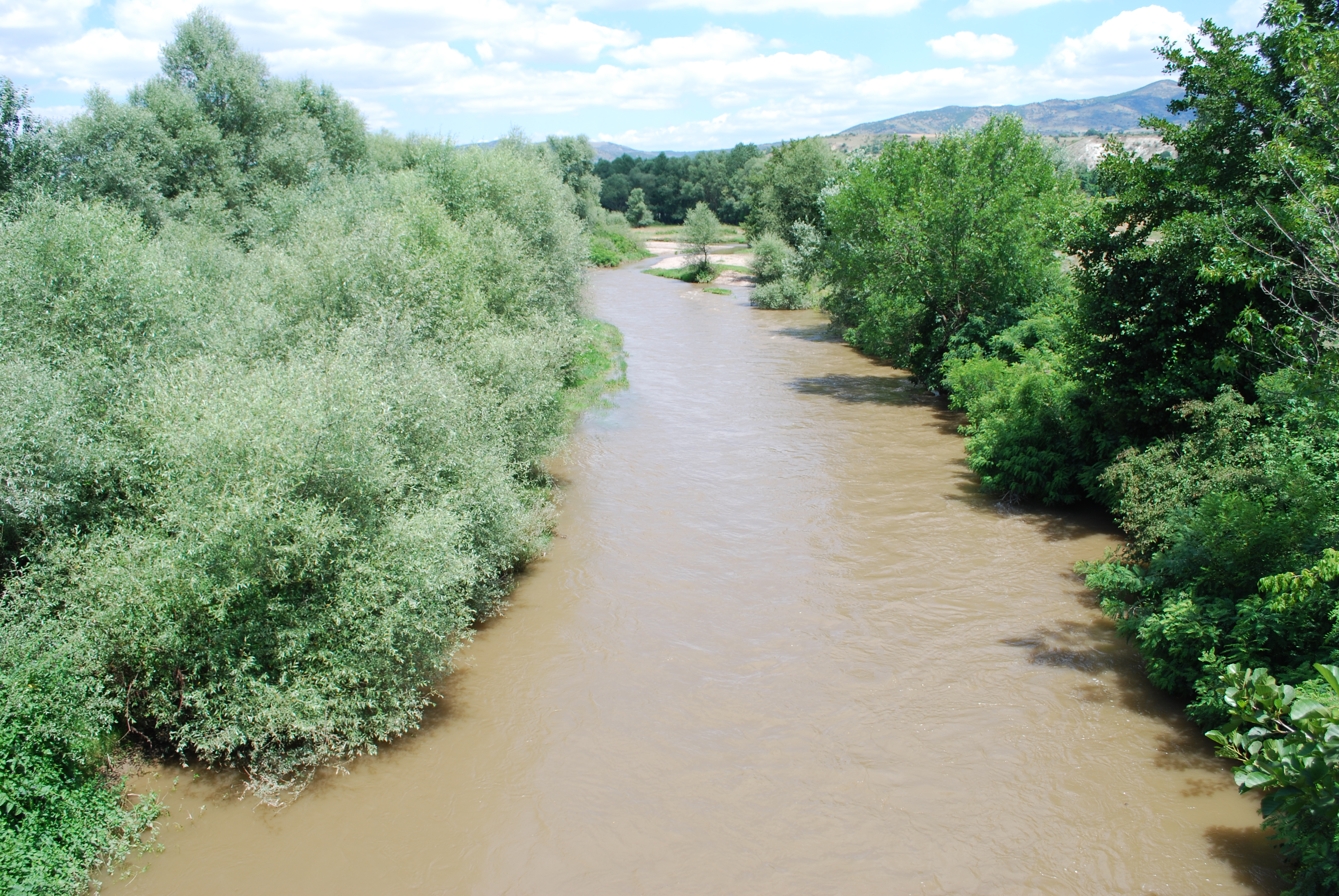 Pčinja River (near Gorno Konjari), Macedonia